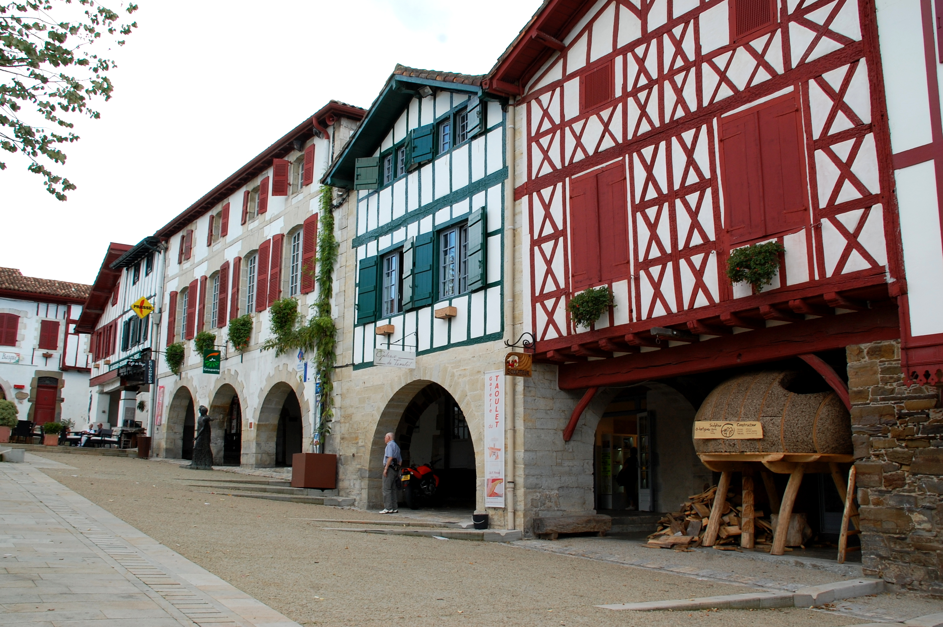 Place de la mairie in La Bastide-Clairence